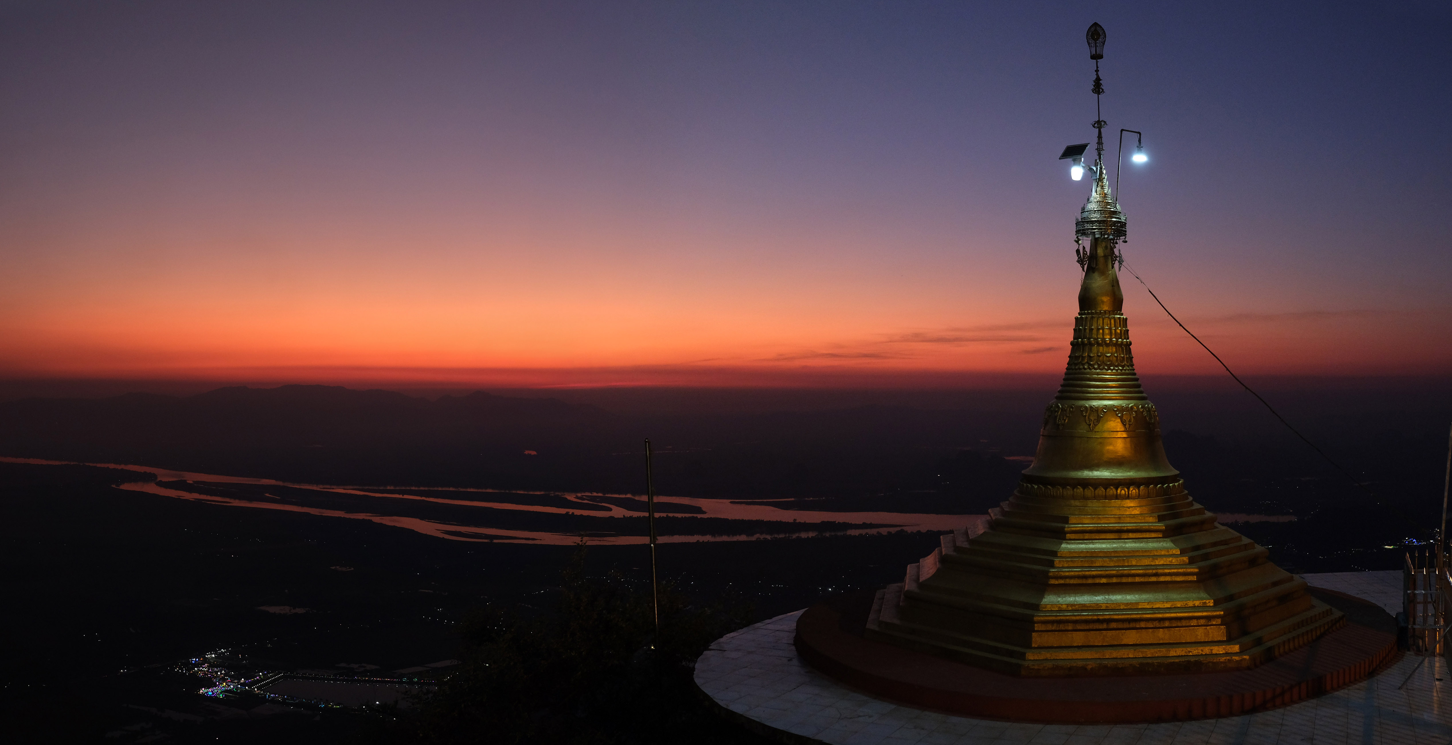 Pagoda in Mount Zwegabin Monastery.